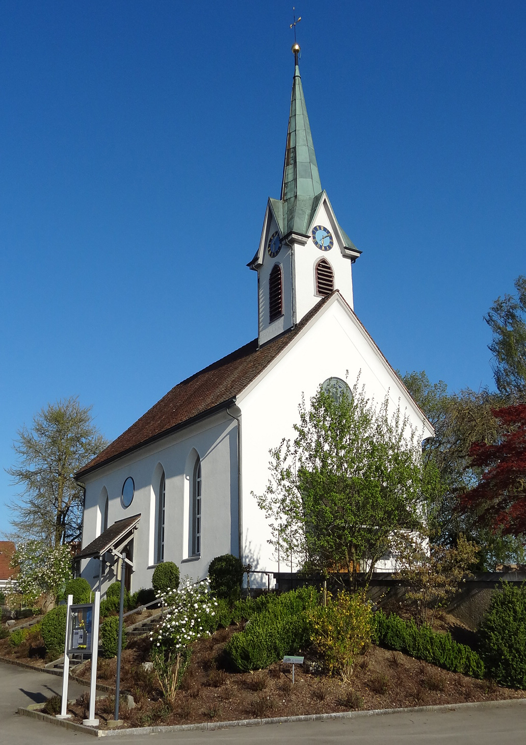 Reformed church of Andwil, Switzerland